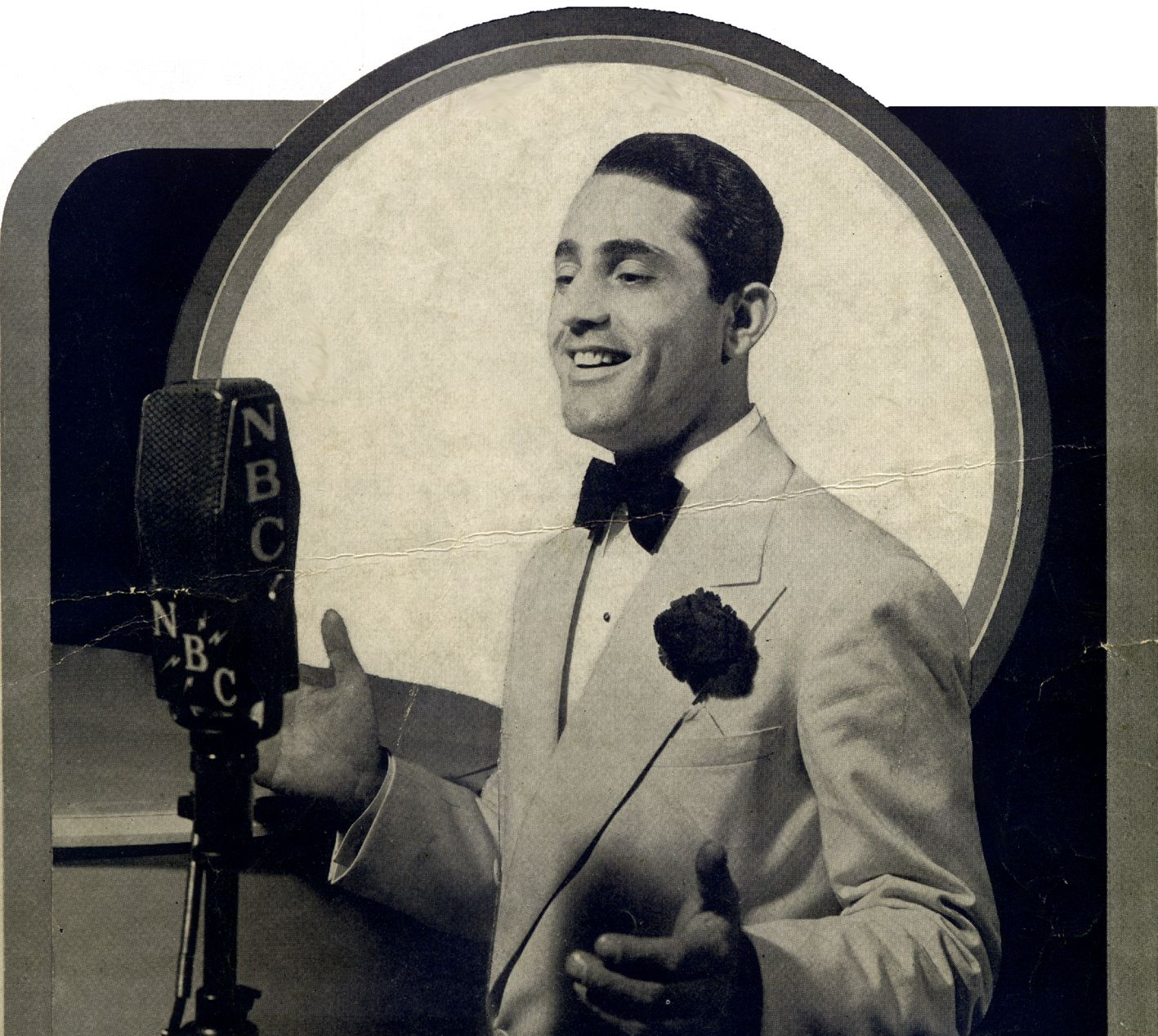 Al Bowlly (1899-1941), famous South African/British vocalist of the 1920s and 1930s.